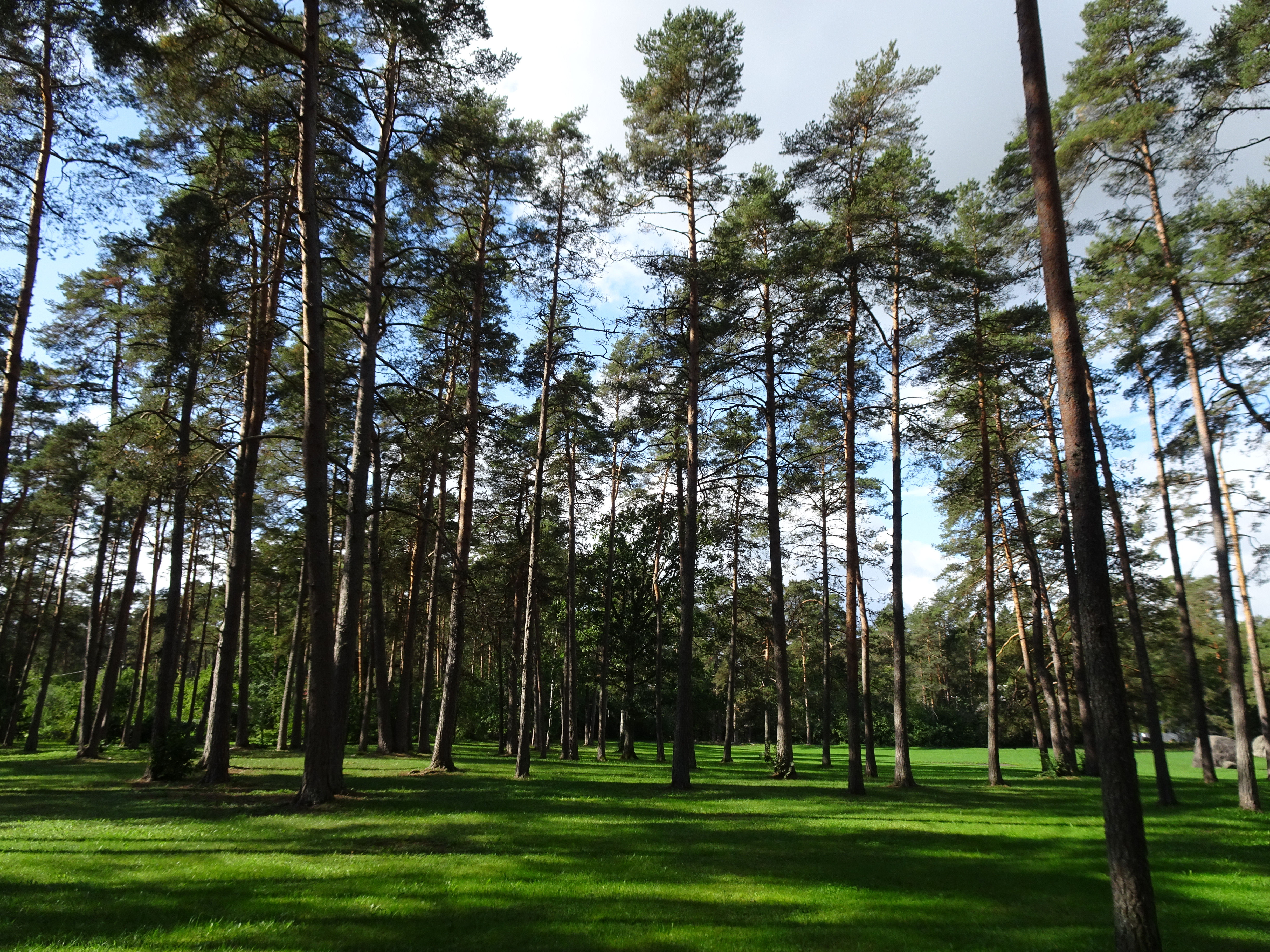 Aruküla pine forest in Aruküla, Harju County, Estonia